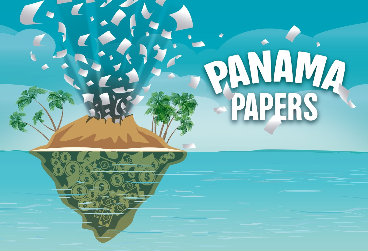 Panama Papers illustration